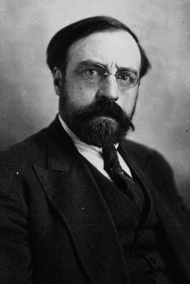 Portrait of the Occitan politician Pau Lafont